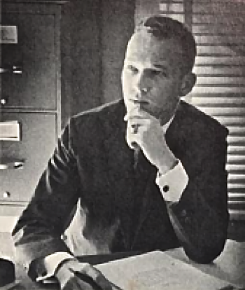 Daniel W. Fagg, Jr., former academic dean and professor, author of the Mount Olive College Alma Mater.